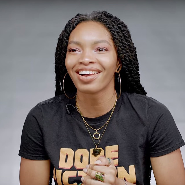 Nigerian Dancer Iziegbe 'Izzy' Odigie is dancing Afrobeats